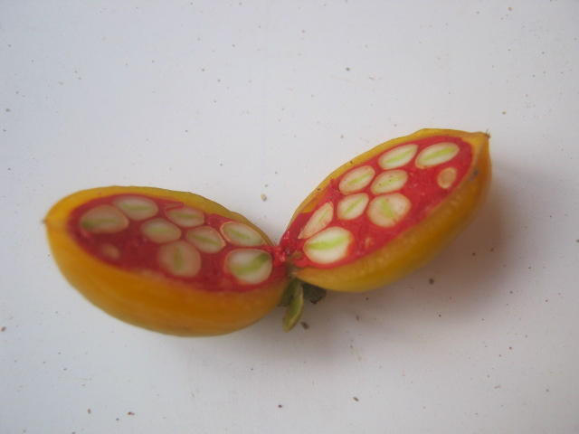 Cross section of Casearia elliptica fruit.